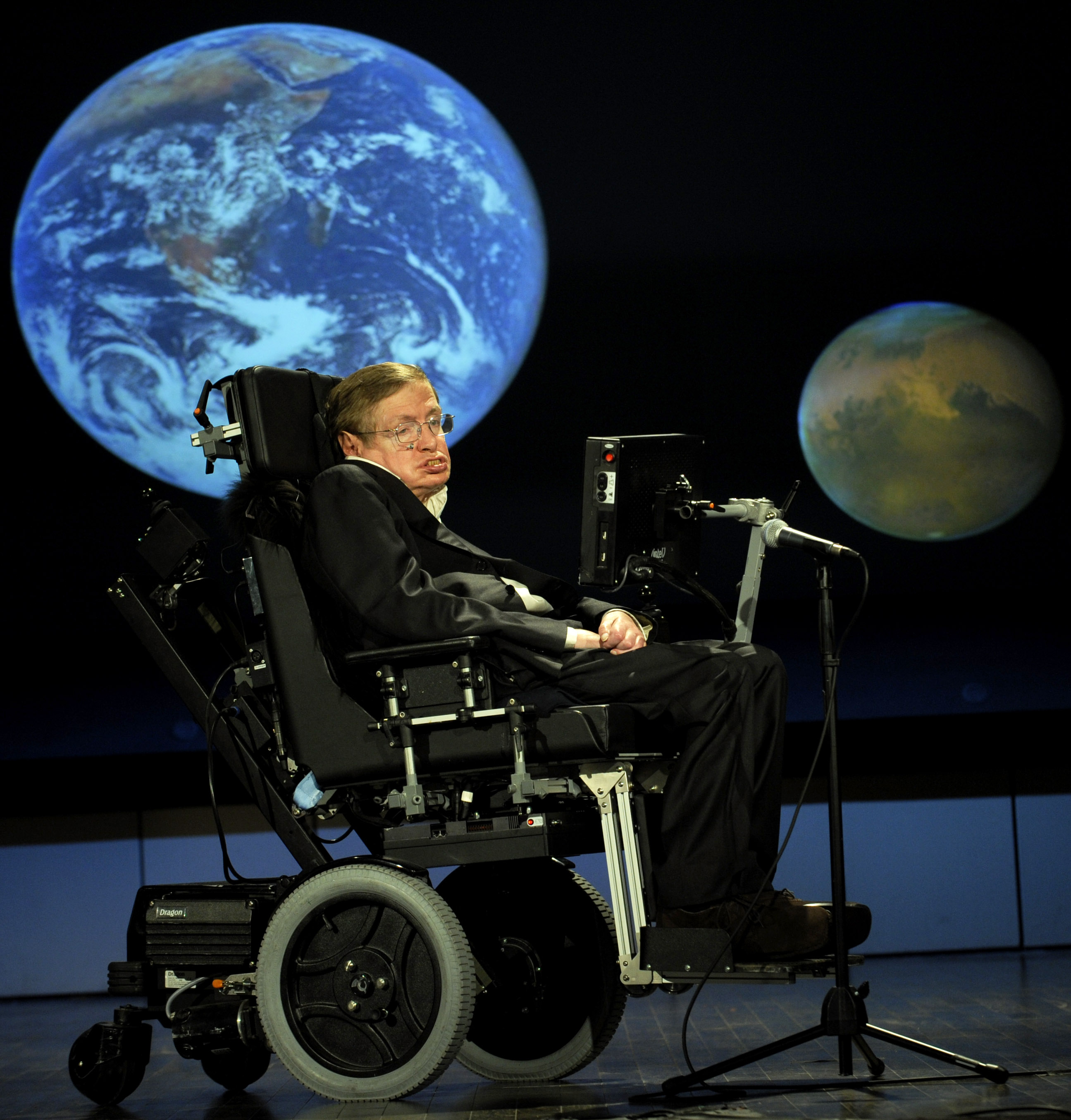 Stephen Hawking giving a lecture for NASA's 50th anniversary